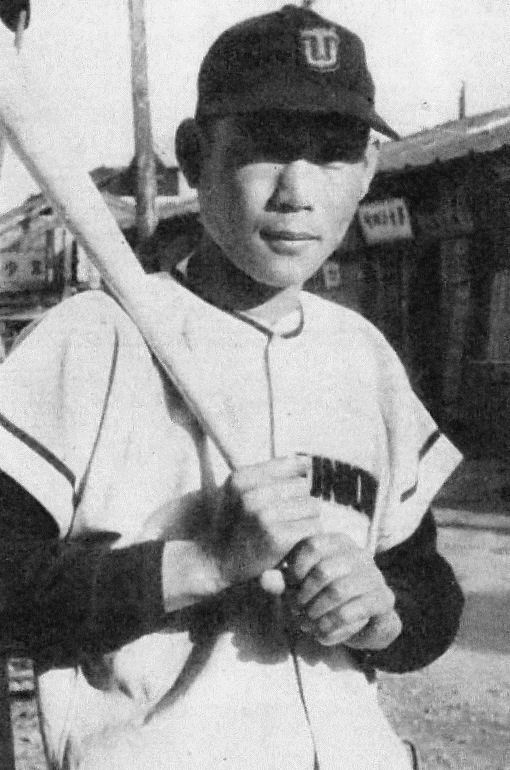 Soichi Arakawa